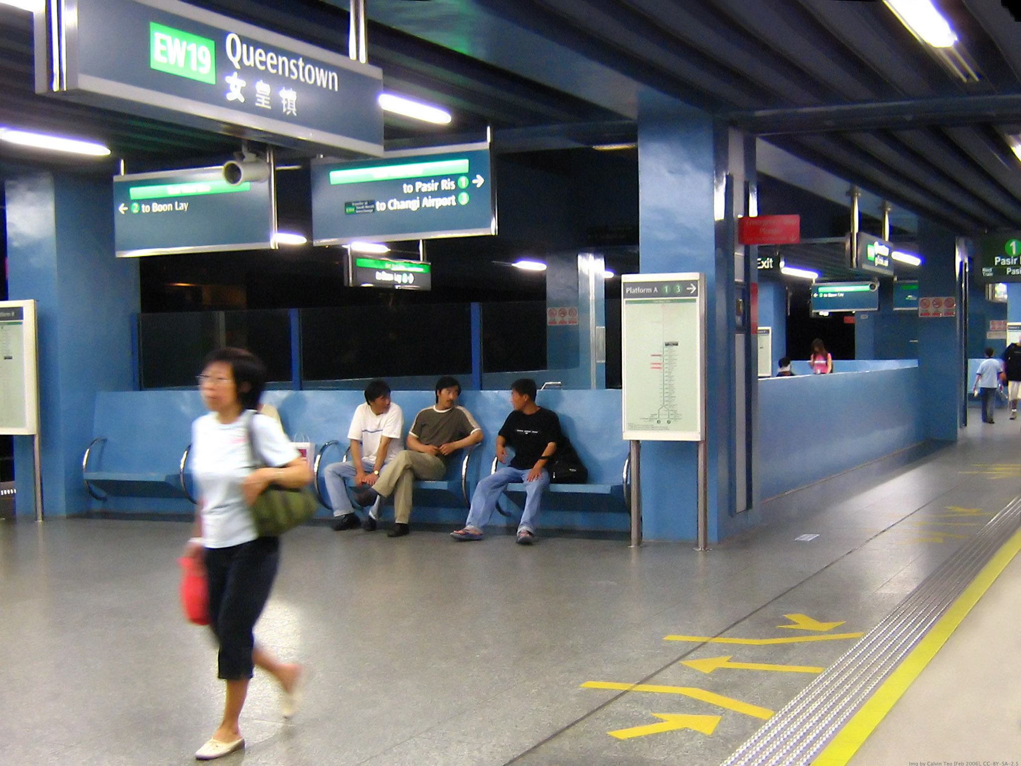 EW19 Queenstown MRT Station, East West Line, Republic of Singapore